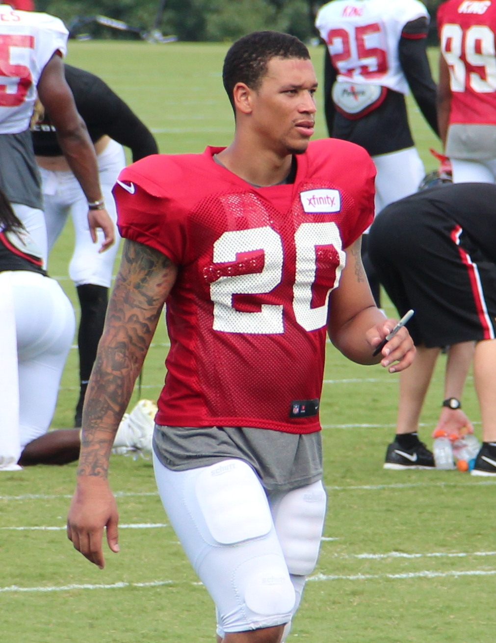 Brandon Wilds at Falcons training camp, 2016